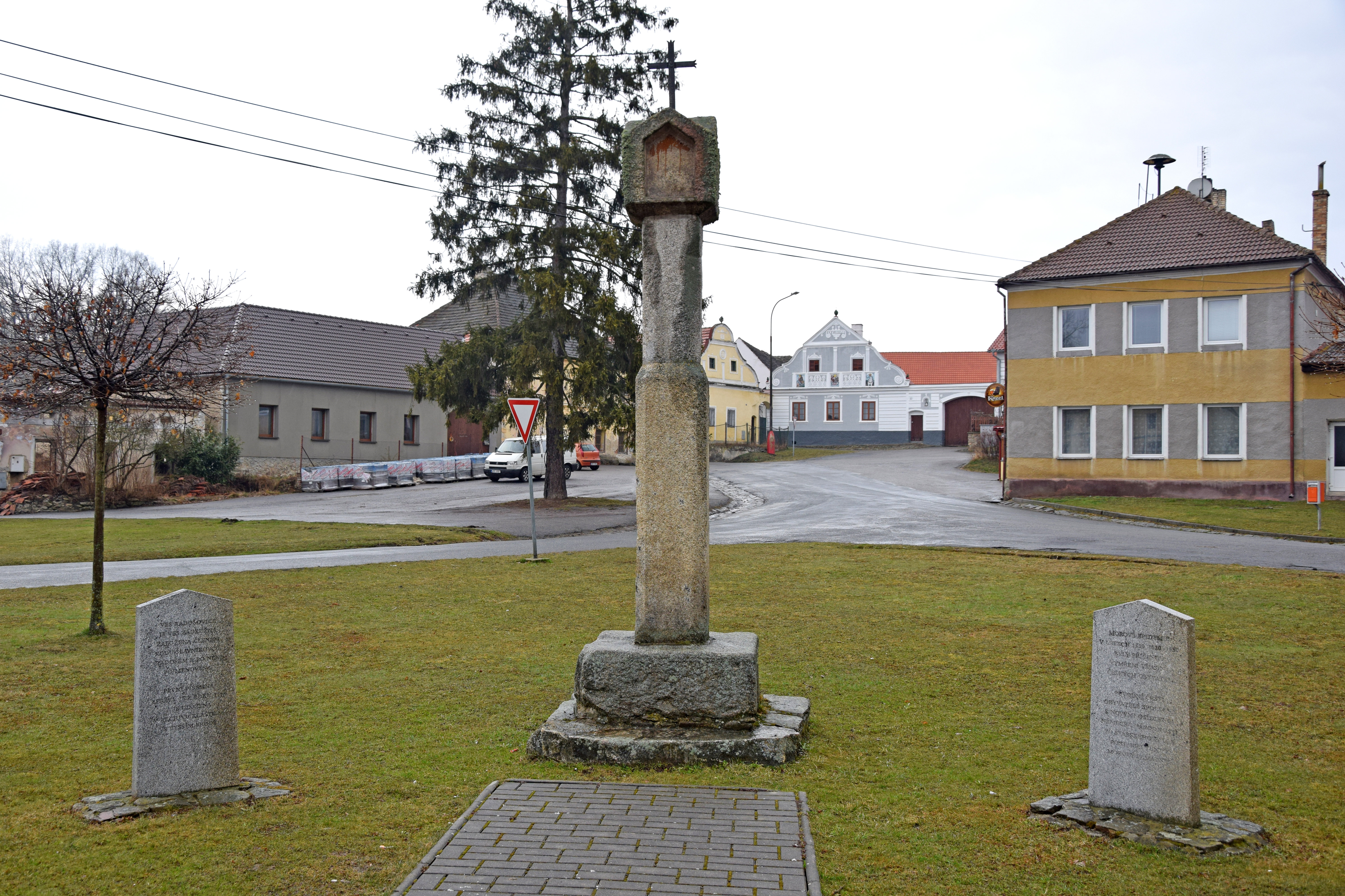 Column shrine in the centre of Radošovice, České Budějovice District, the Czech Republic.